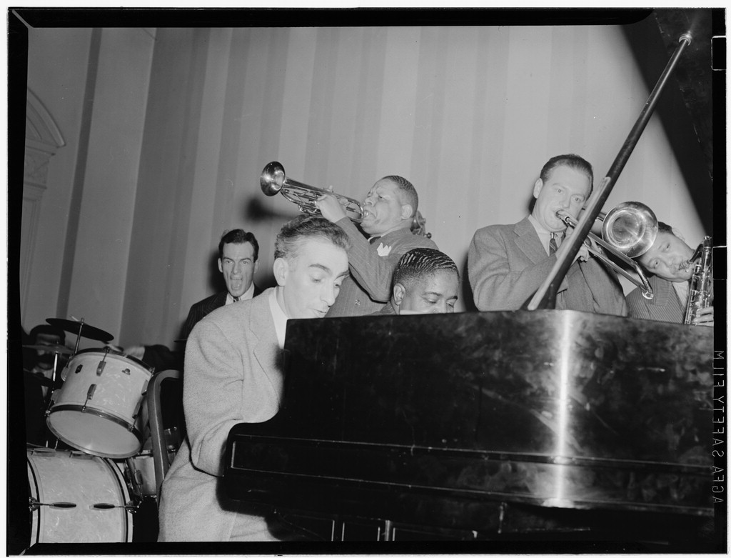 Art Hodes, Henry Red Allen, Pete Johnson, Lou McGarity, and Lester Young, National Press Club, Washington, D.C.